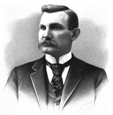 William Rankin Ballard, early Seattle, Washington area developer, also associated with the development of the area's streetcars. With Thomas Burke and John Leary, he purchased 700 acres of land around Salmon Bay; the resulting city of Ballard was annexed by Seattle in 1907.